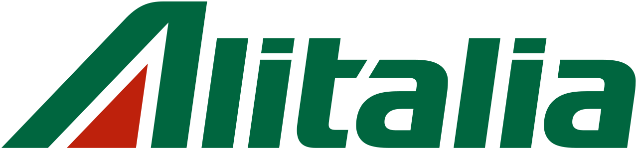 Alitalia logo 2017